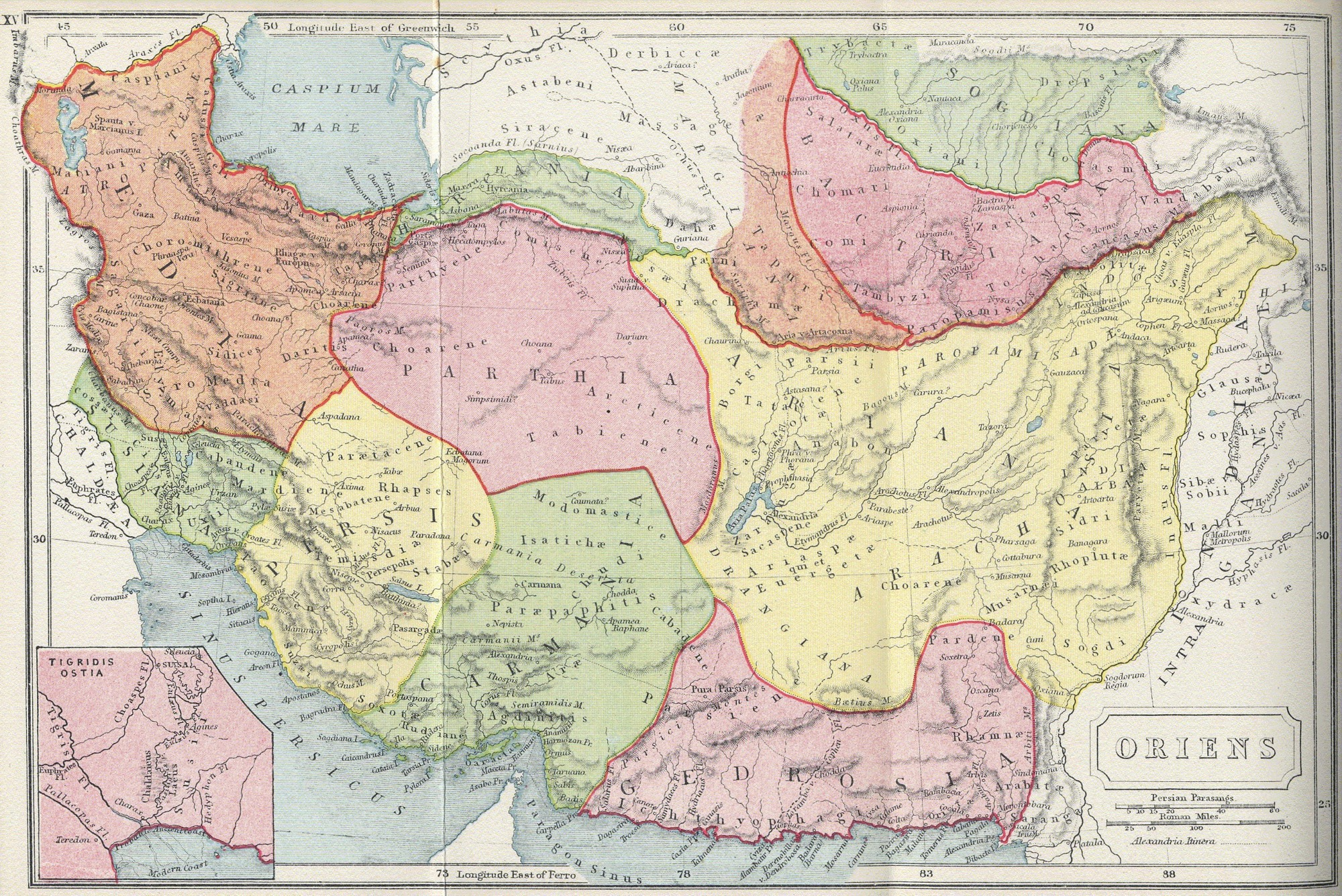 Map of the Ancient Orient, Caspian Area and Eastward, Media, Persis, Parthia, Bactria, Ariana etc.